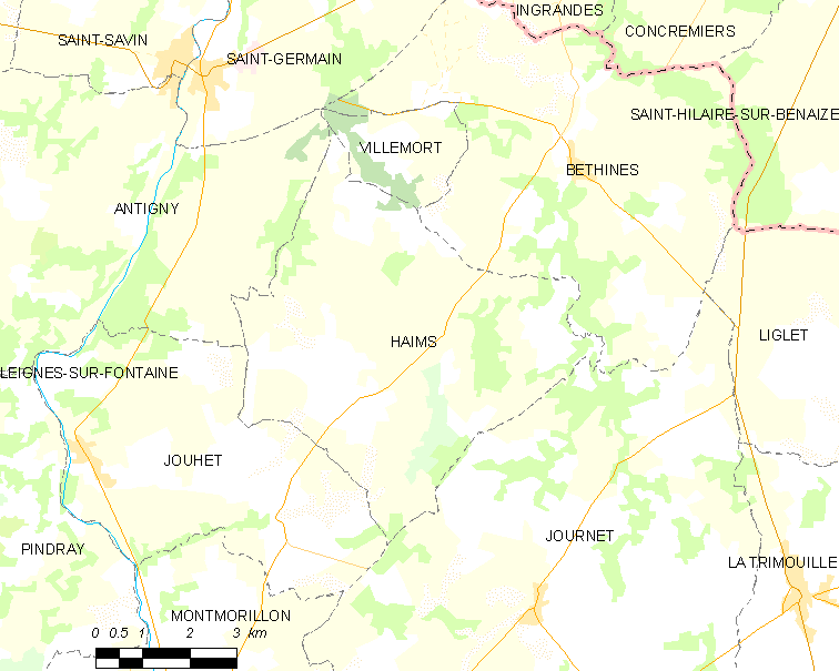 Map of French municipality Haims